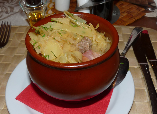 Bigus (bigos) in belarus restaurant "Belaya Rus" in Moscow